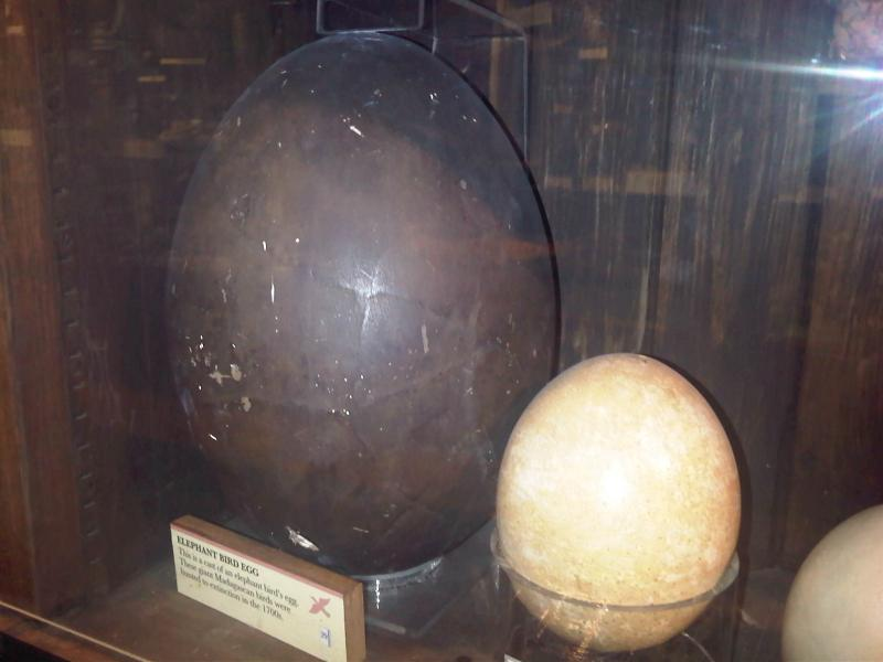 Eggs in Grant Museum of Zoology, London, England. From left to right: Elephant bird (Aepyornis maximus) and Ostrich (Struthio camelus).